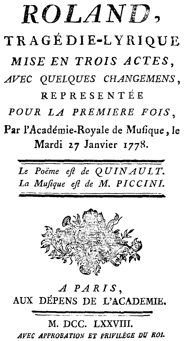 Niccolò Piccinni - Roland - titlepage of the libretto, Paris 1778